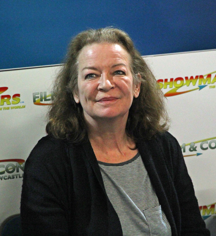 Clare Higgins at convention